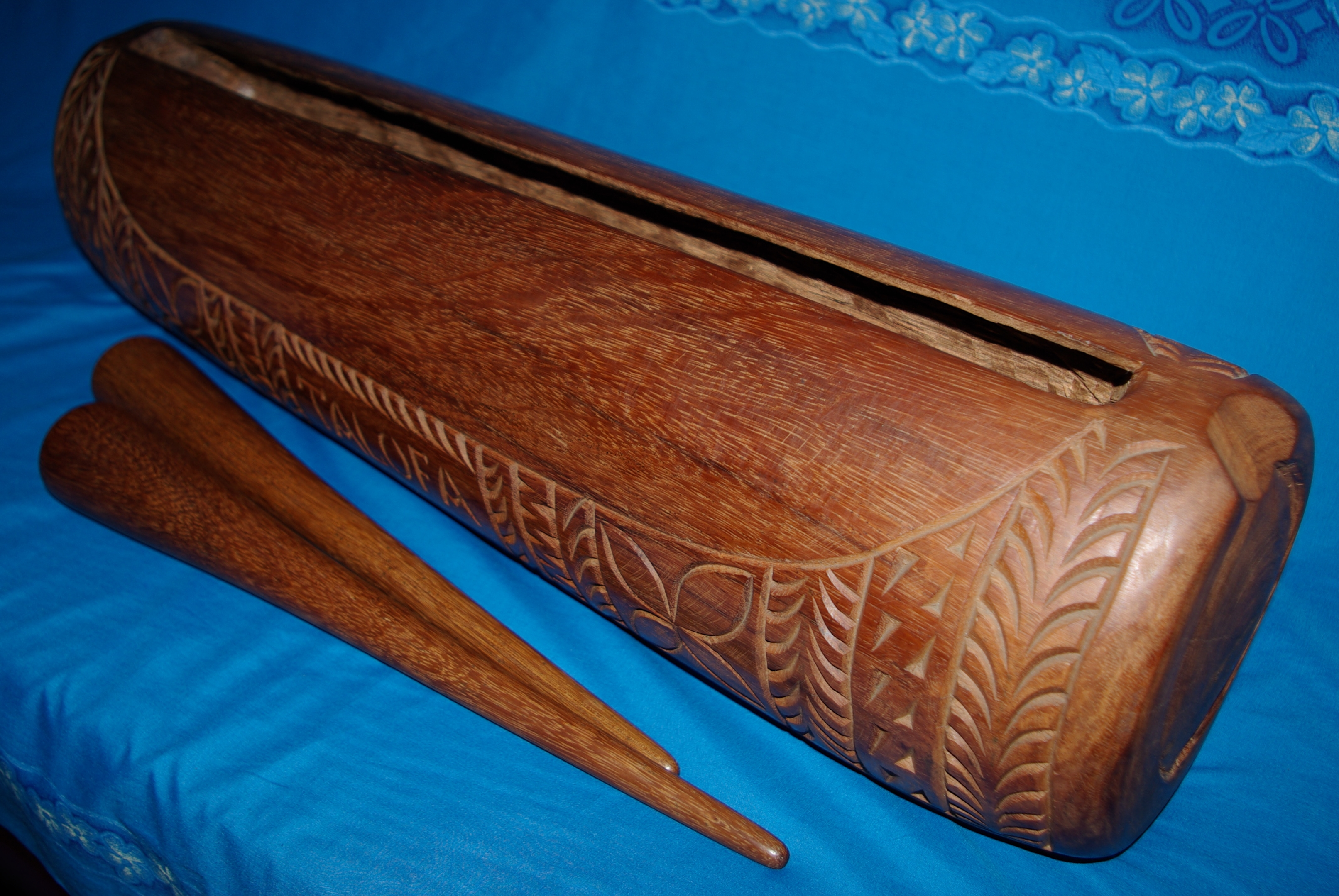 Polynesian slit drum and two drum sticks, made in Samoa. This drum is made of Samoan Ironwood, locally called Ifilele.